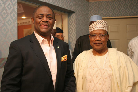 Chief Femi Fani-Kayode (Left) with former military President, General Ibrahim Babangida (rtd) at a private lunch to honor Fani's 50th birthday organised by General Babangida in Lagos 2010.